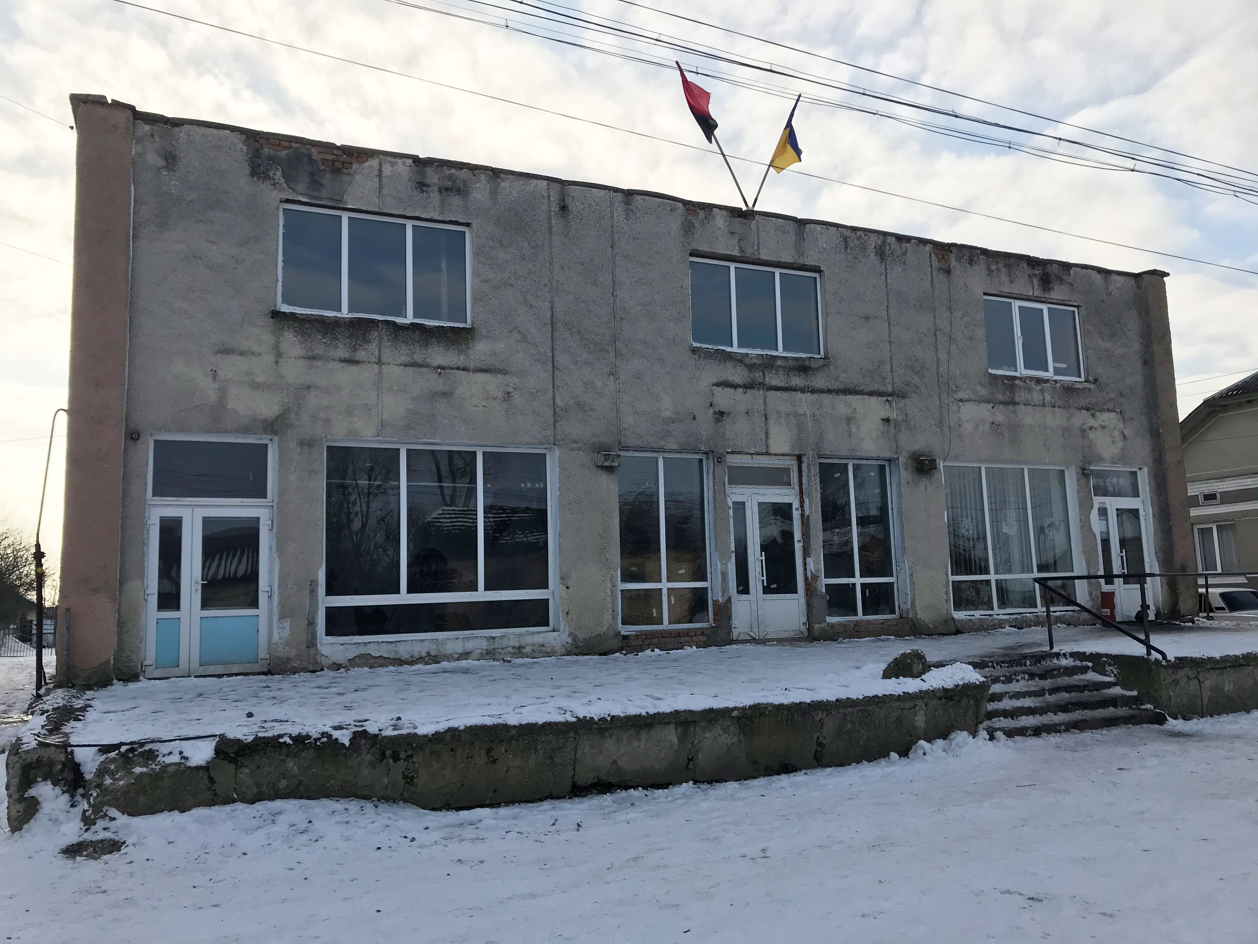 A shop in a village Vivsia, Kozova Raion Ternopil oblast, Ukraine